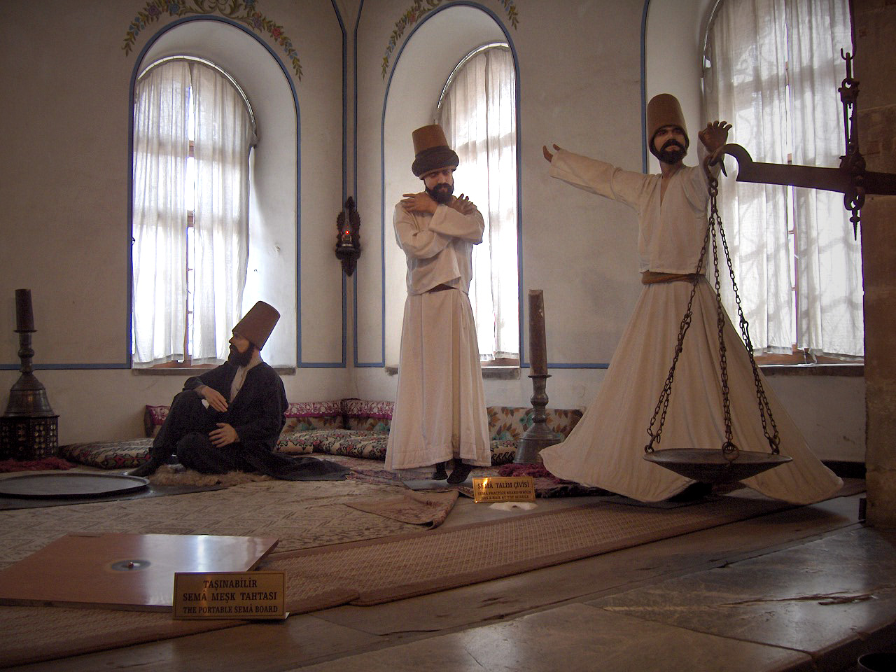 Whirling Dervishes; Mevlâna mausoleum; Konya, Turkey